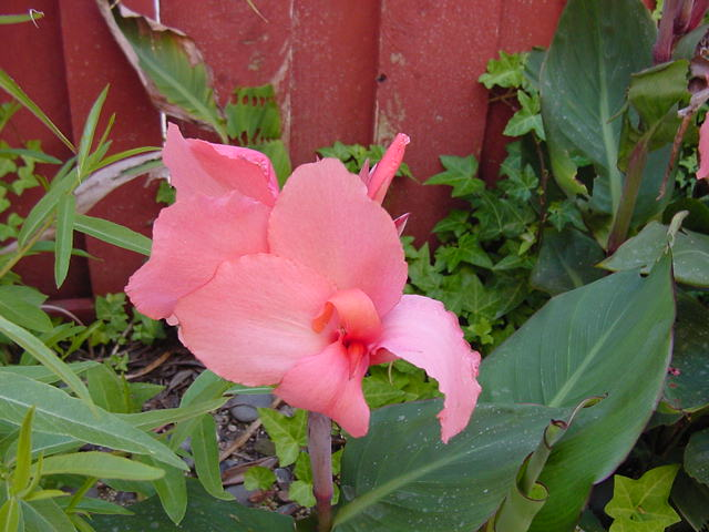 Canna Cultivar Canna lily taken by User:CatherineMunro